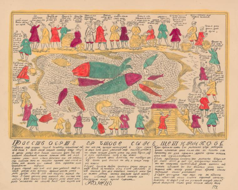 Ersh Ershovich